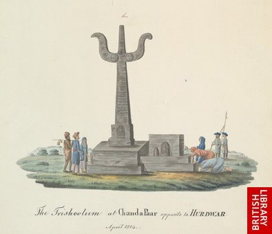 Trisula (trident) from Chandi Pahar, opposite Haridwar. April 1814. A water-colour sketch by an unknown artist in April 1814 of a trisula (the trident symbol of the god Siva) at Chandi Pahar opposite Haridwar, Uttar Pradesh. Inscribed on the front of the image in ink is: b. The Trishoolum at Chandu Paar opposite to Hurdwar. April 1814.